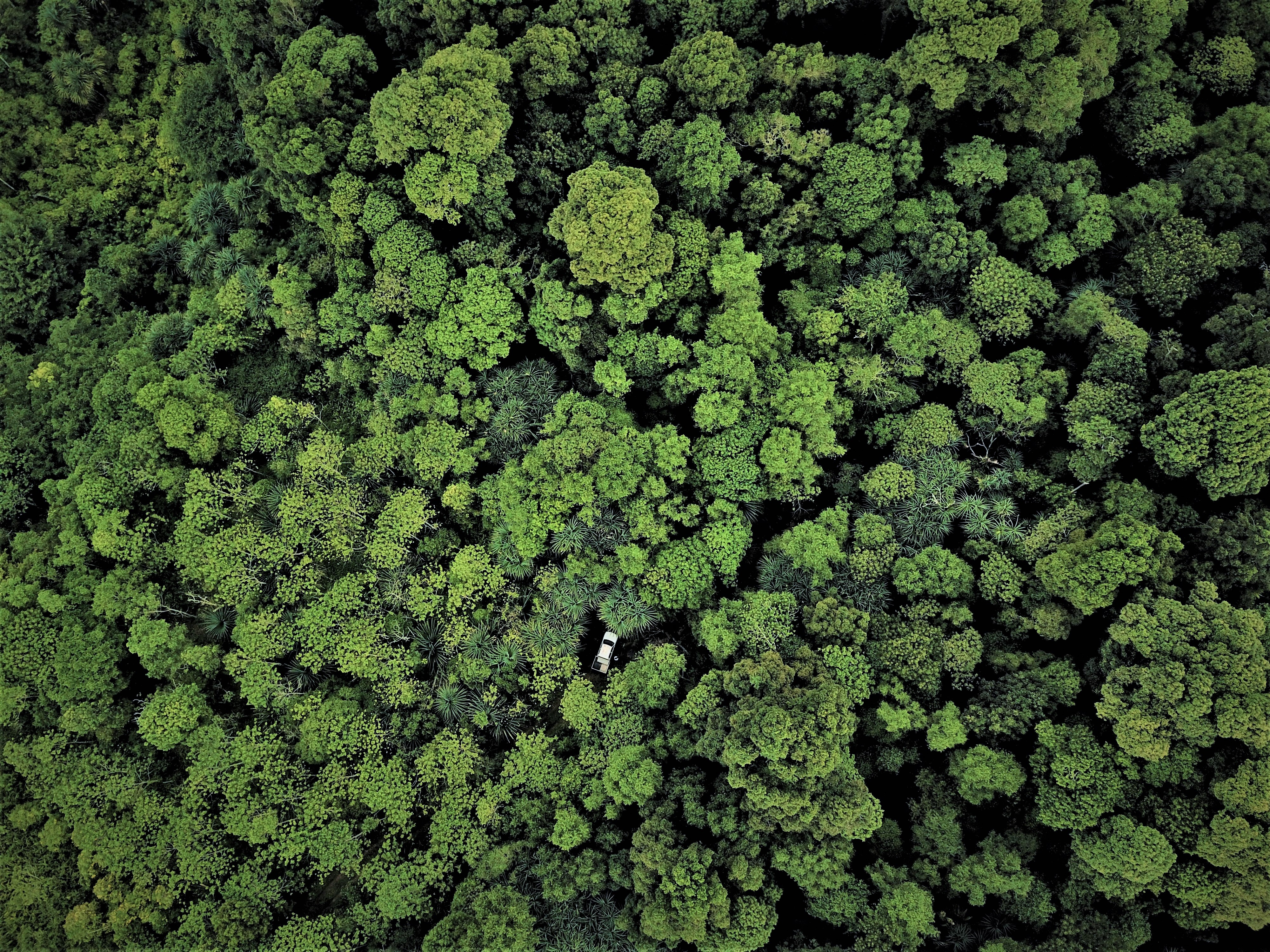 This image visualizes an important part of the conservation work for the endangered Abbott's Booby on Christmas Island. Small gaps within the canopy are used for launching a drone that explores this location for potential nesting sites. These large seabirds can be detected from the air through their predominantly white color against green foliage. You can find two nesting birds on the emergent trees in the upper central part of this photograph.